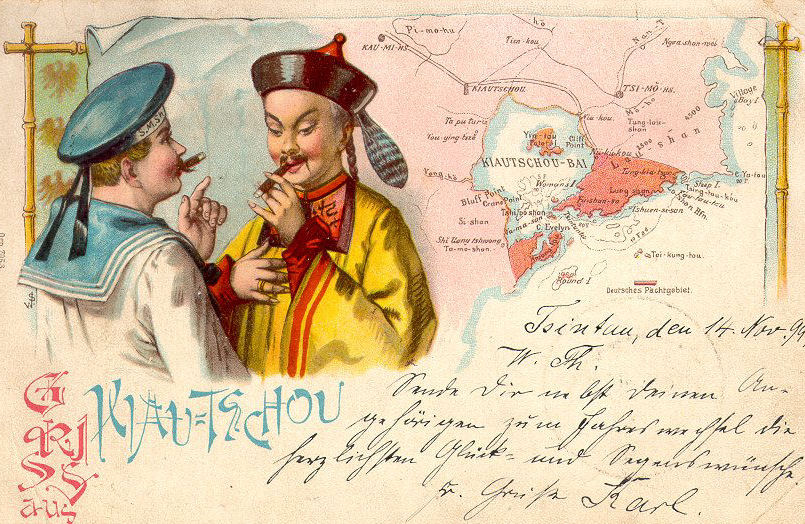 historic postcard of Qingdao, China (around 1900)